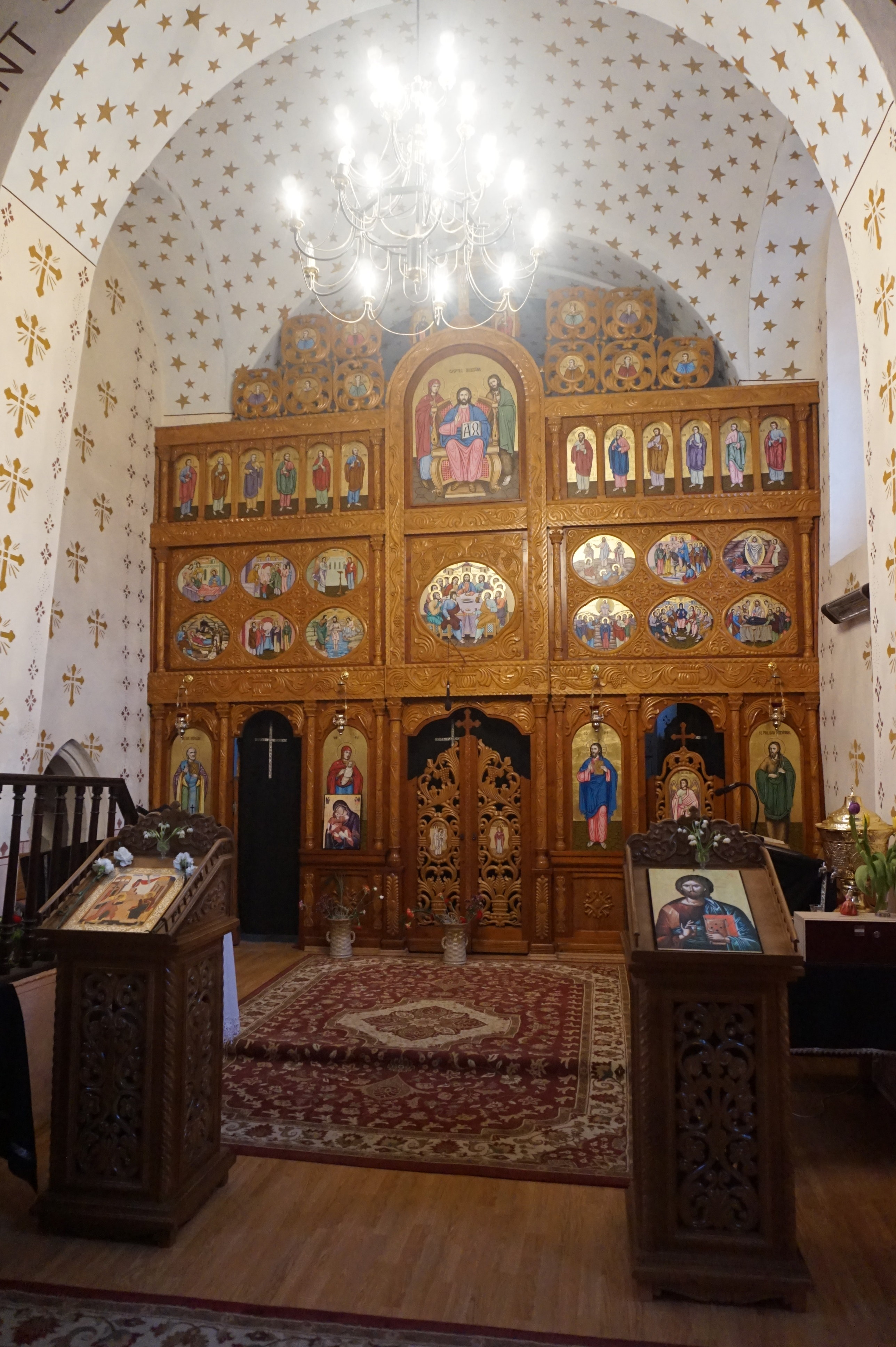 Lutheran church in Arcalia, Bistrița-Năsăud County, Romania